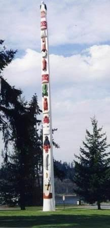 80 foot pole carved by Chief William Shelton (Tulalip) on the State Capitol grounds in Olympia, Washington in 2009.